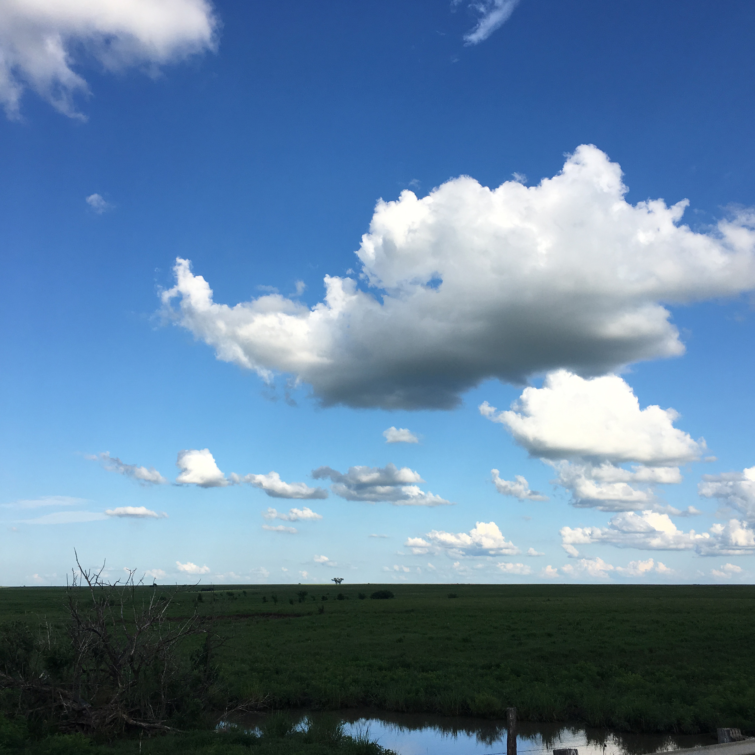 Prairie grass in the Flint Hills, Greenwood County, Kansas along Highway 99